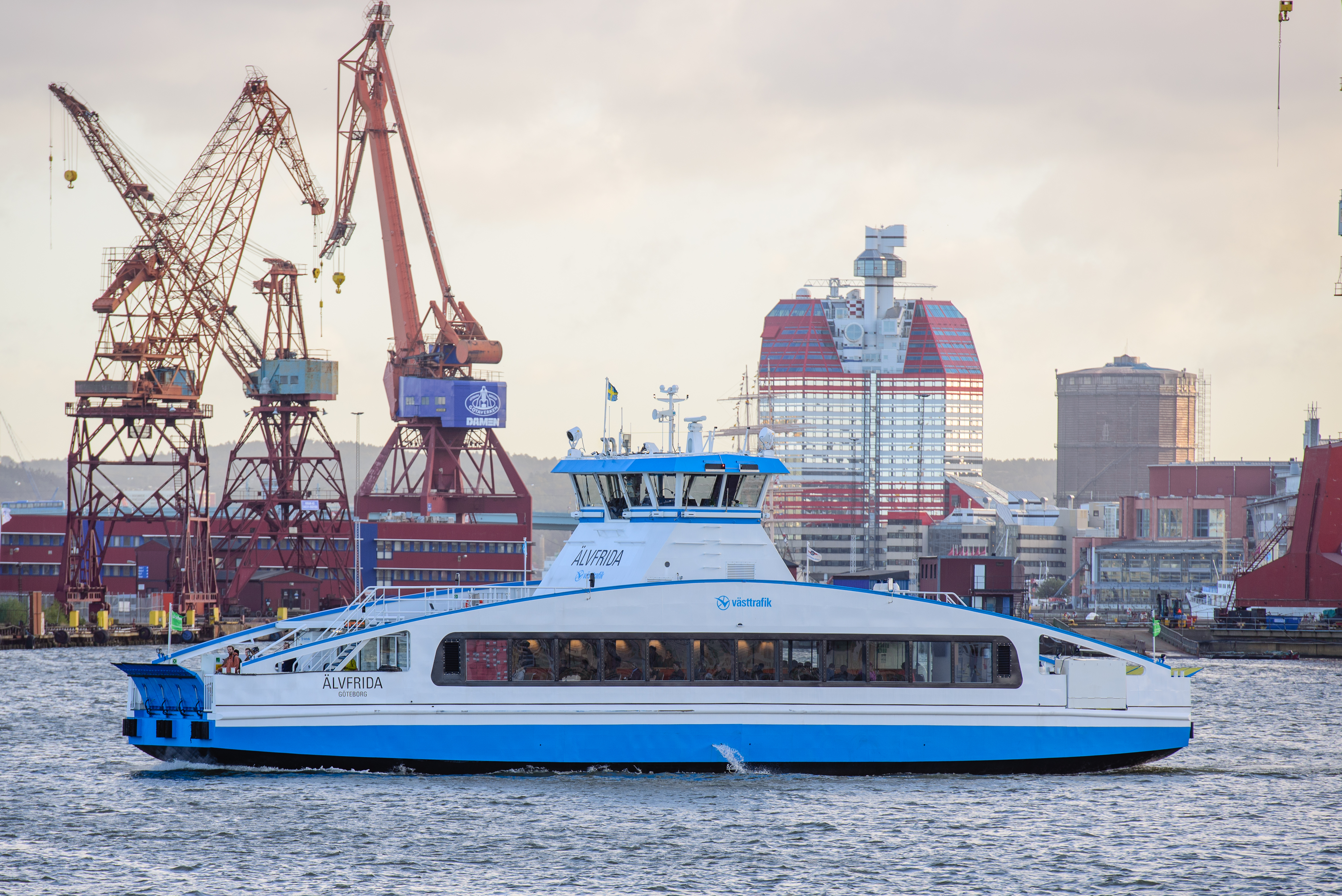 The ferry Älvfrida in Gothenburg habour.